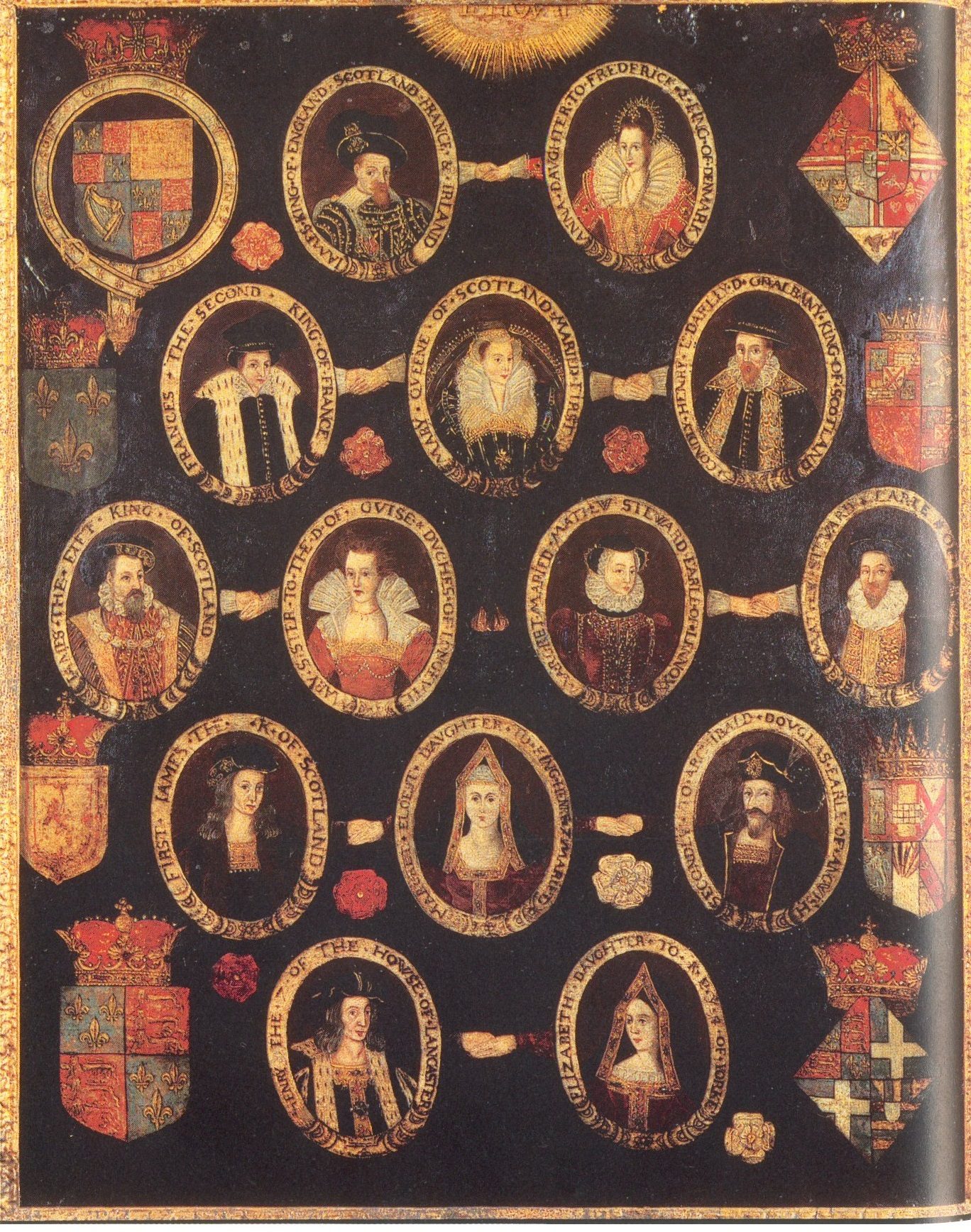 Painted genealogy showing James I's Tudor ancestry. Mary Stuart, Queen of Scots, James' mother, is shown in the center of the second row, holding hands to signify marriage first with Francis II and secondly with Lord Darnley, father of James. Beneath Mary to her right are her parents, James V of Scotland and Mary of Guise. Beneath Darnley are his parents Lady Margaret Douglas and Matthew Stewart, Earl of Lennox. Mary and Darnley share a grandmother, Margaret Tudor in the center of the fourth row, Henry VII's eldest daughter. She first married James IV of Scotland (to her left) and became mother of James V and then married Archibald Douglas, Earl of Angus. On the bottom row are the founders of the Tudor dynasty, Henry VII (of Lancaster) and Elizabeth of York.